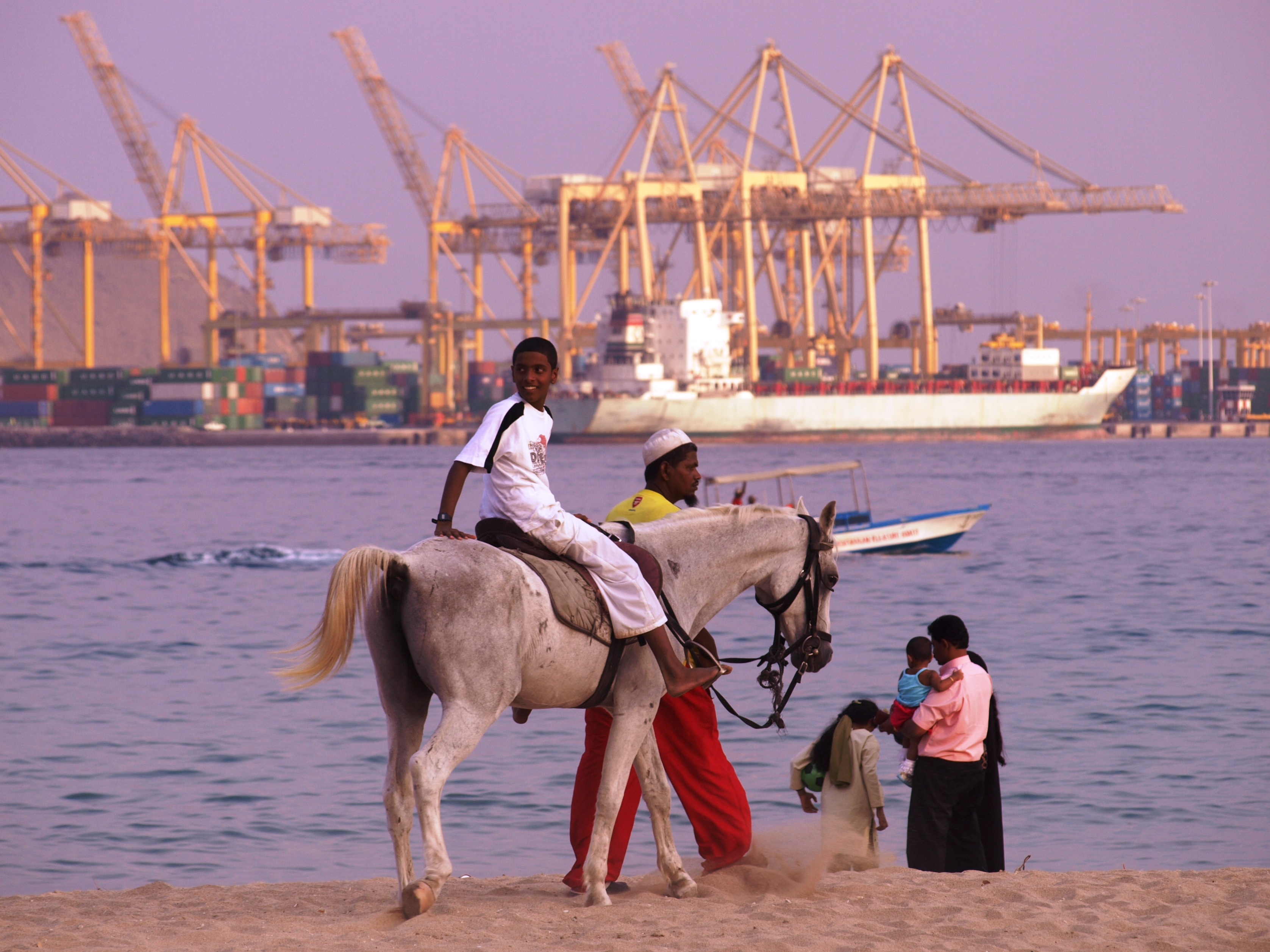 Port of Khor Fakkan. Khor Fakkan, Sharjah, United Arab Emirates